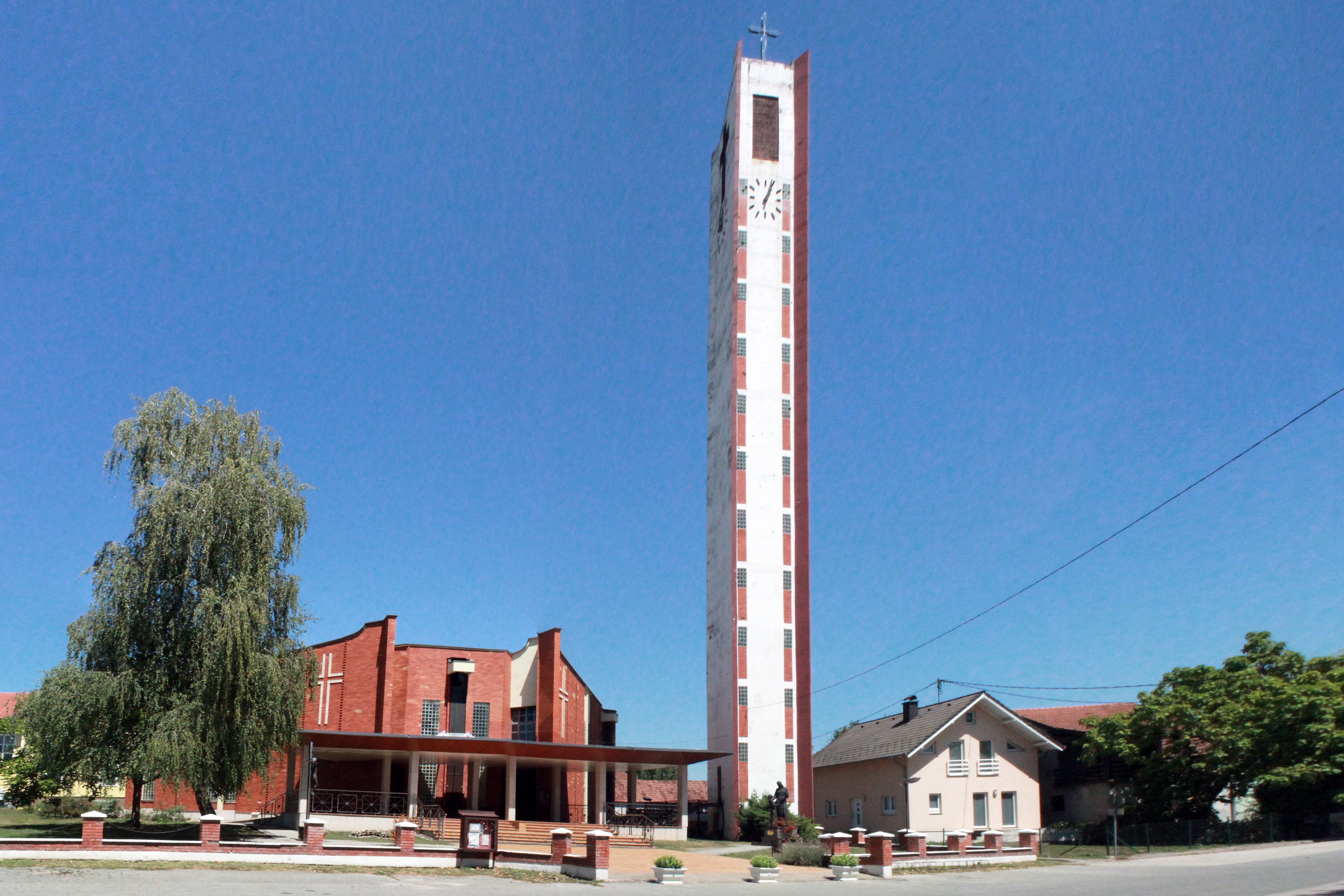 The church Sveta Ana in Domaljevac in the year 2017